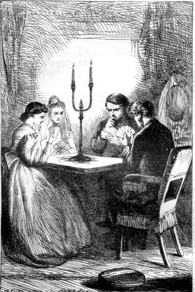 Pip plays Whist at Miss Havisham's, by Marcus Stone